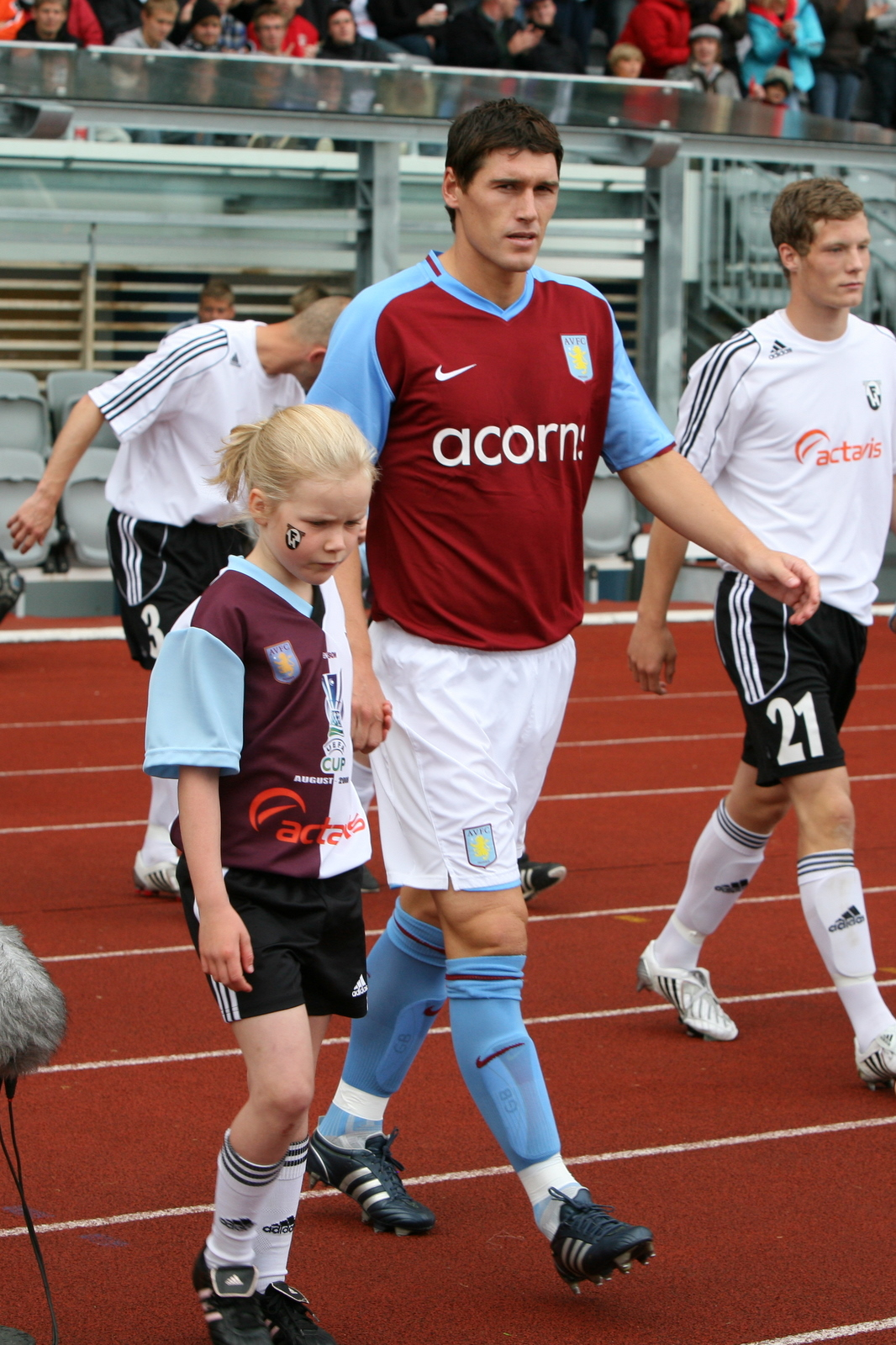 Gareth Barry of Aston Villa